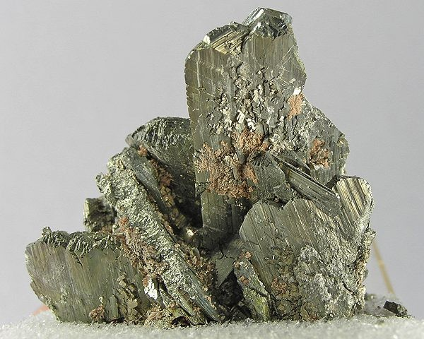 Marcasite Locality: Magmont Mine, Bixby, Viburnum Trend District, Iron County, Missouri, USA (Locality at ) Size: 5.3 x 4.9 x 2.6 cm. A very impressive specimen of old Missouri marcasite! The crystals are large, wide and elongated, and most are complete. Marcasite is usually seen as an accessory mineral in the form of microcrystals, and occurrences of large, distinct crystals such as these (to 4 cm) are quite uncommon.